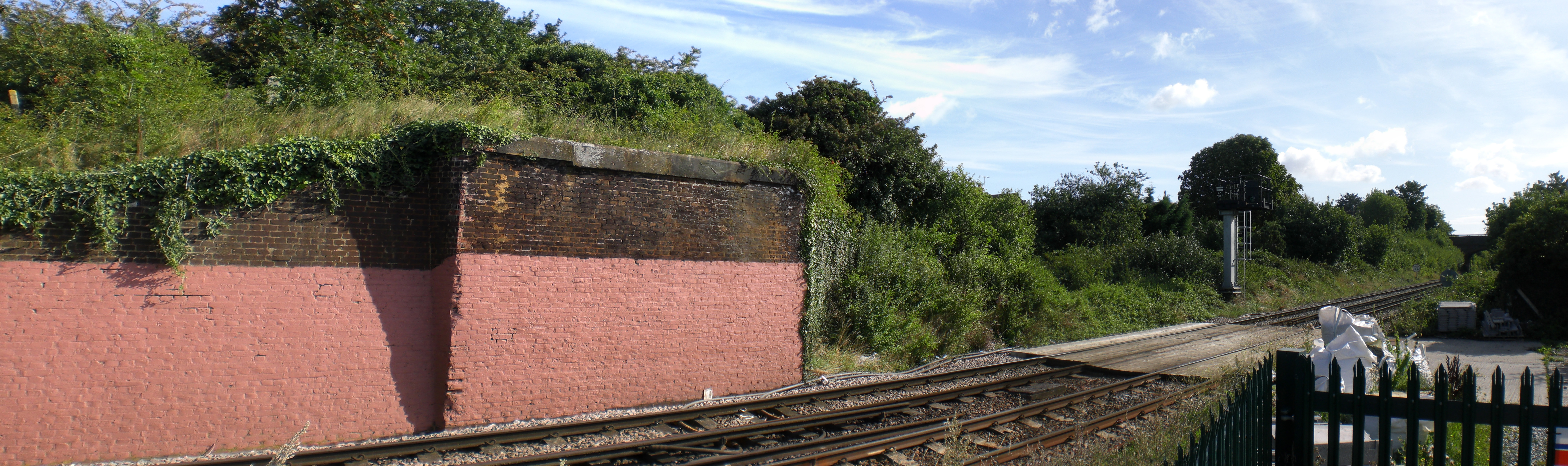 Former Whitstable Crab & Winkle Railway Bridge. In front the Canterbury and Whitstable Railway.